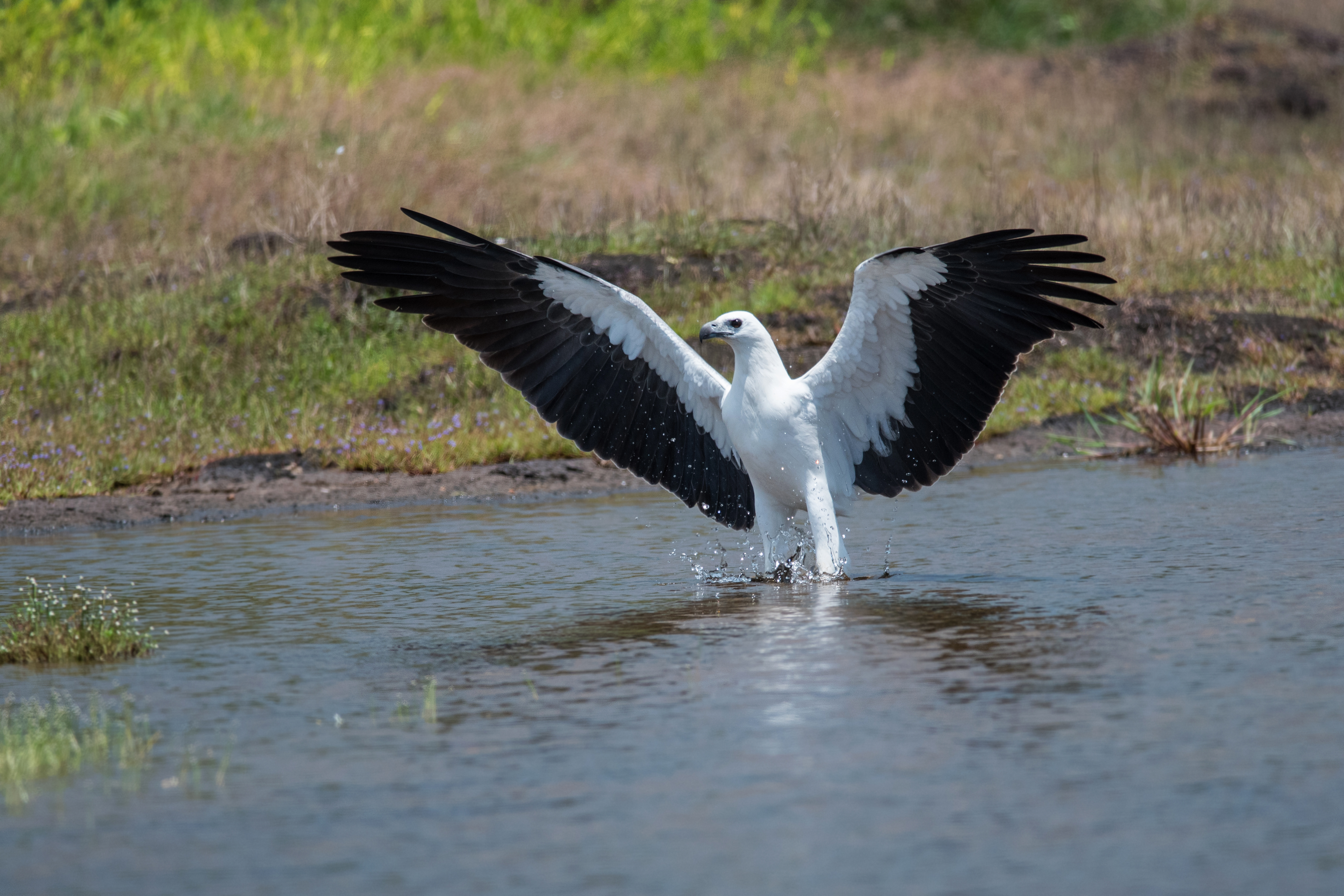 The white-bellied sea eagle, also known as the white-breasted sea eagle, is a large diurnal bird of prey in the family Accipitridae.